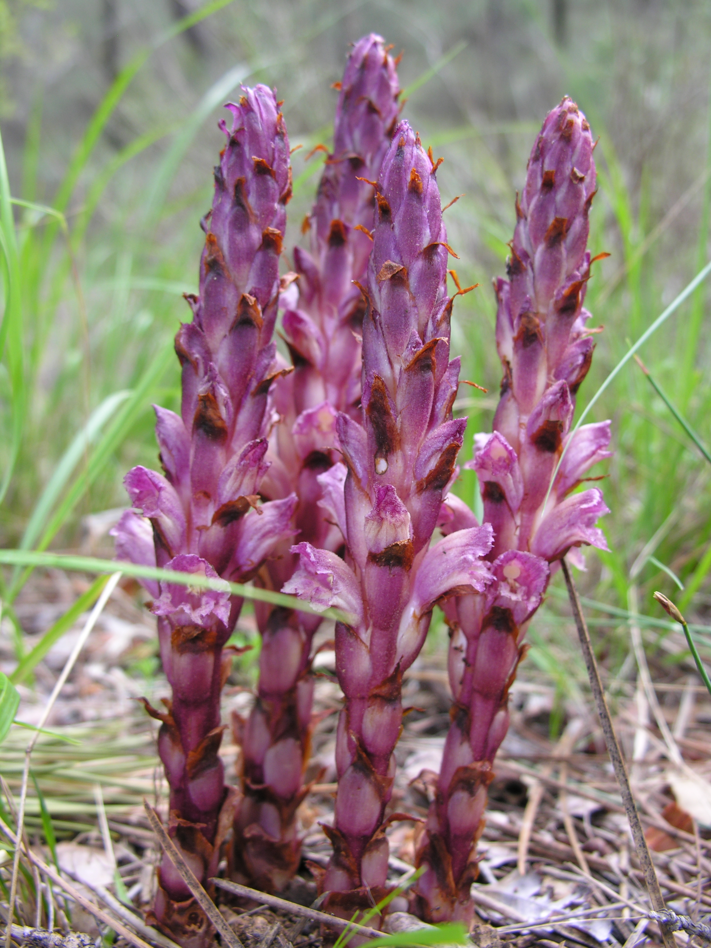 Orobanche haenseleri. fam Orobanchaceae. Sit.: Parque Natural de las Sierras de Cazorla, Segura y las Villas. Cazorla, Jaen, España